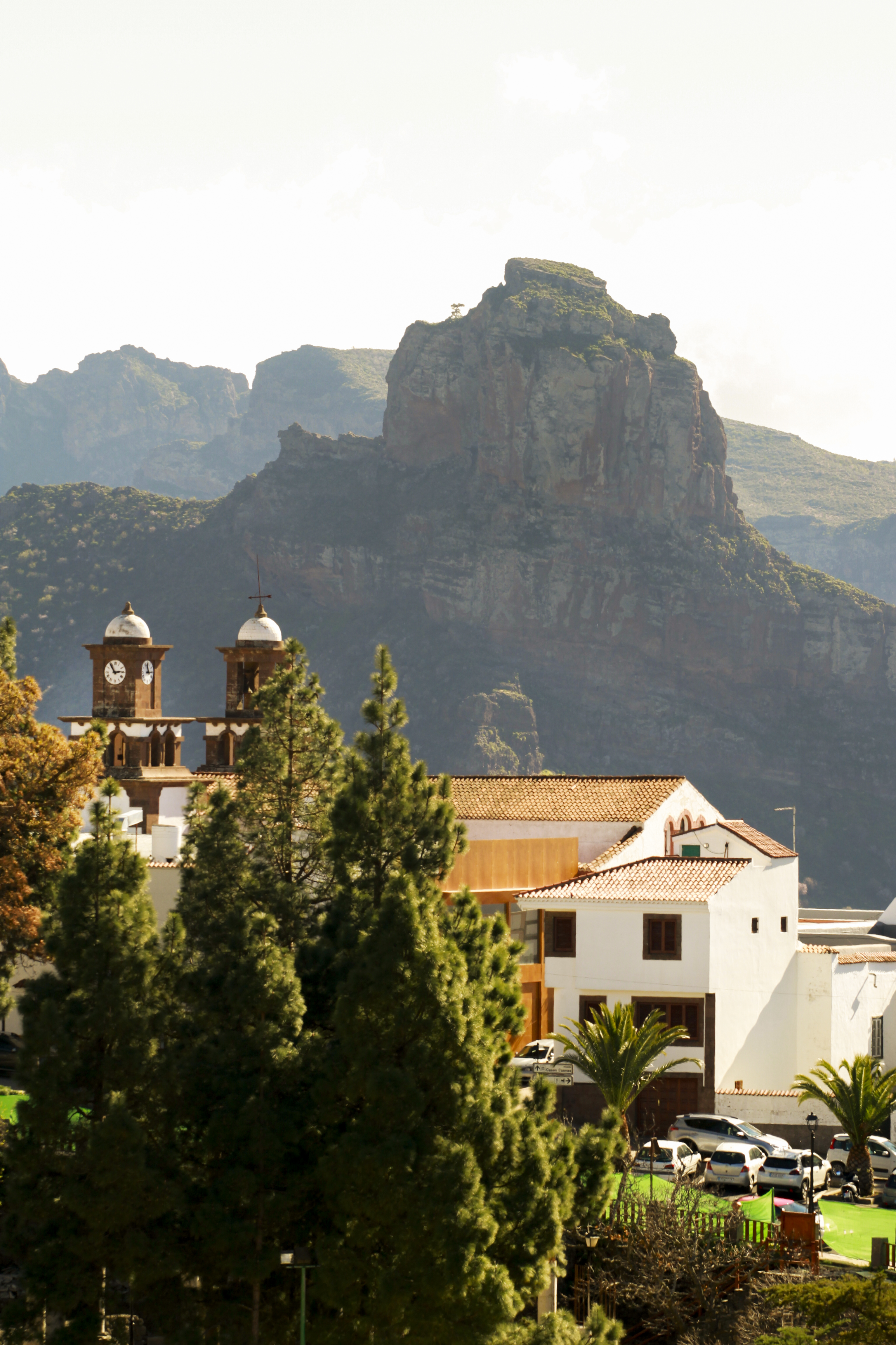 Bentayga from Artenara